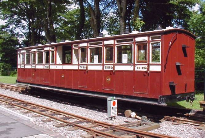 L&B Coach 7 at Woody Bay Lynton & Barnstaple Railway, 2005 The coach was restored by the Essex Support Group of the L&BR Association